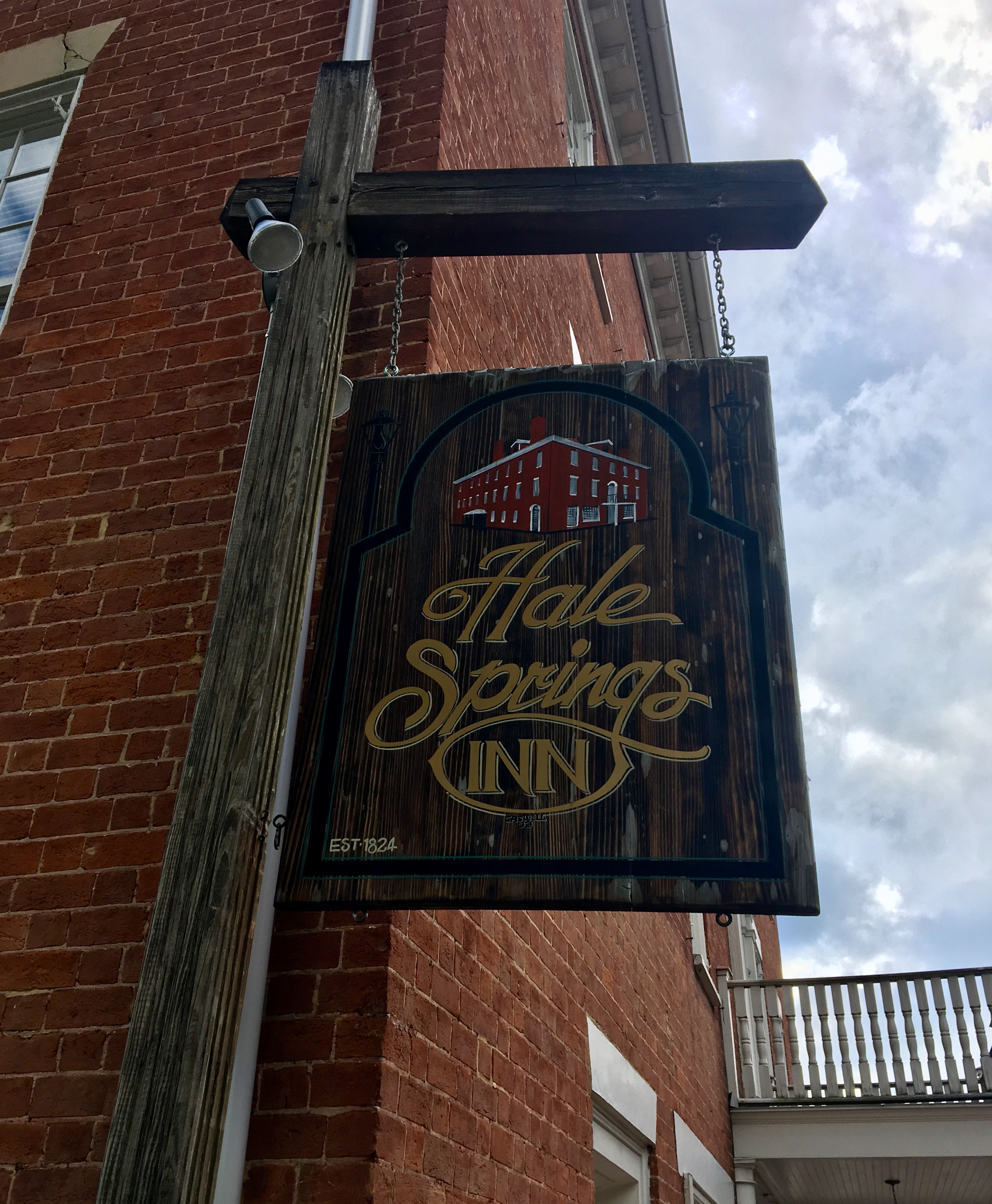 The sign for Hale Springs Inn, a building that is apart of the Rogersville Historic District, in Rogersville, Tennessee in June 2020.